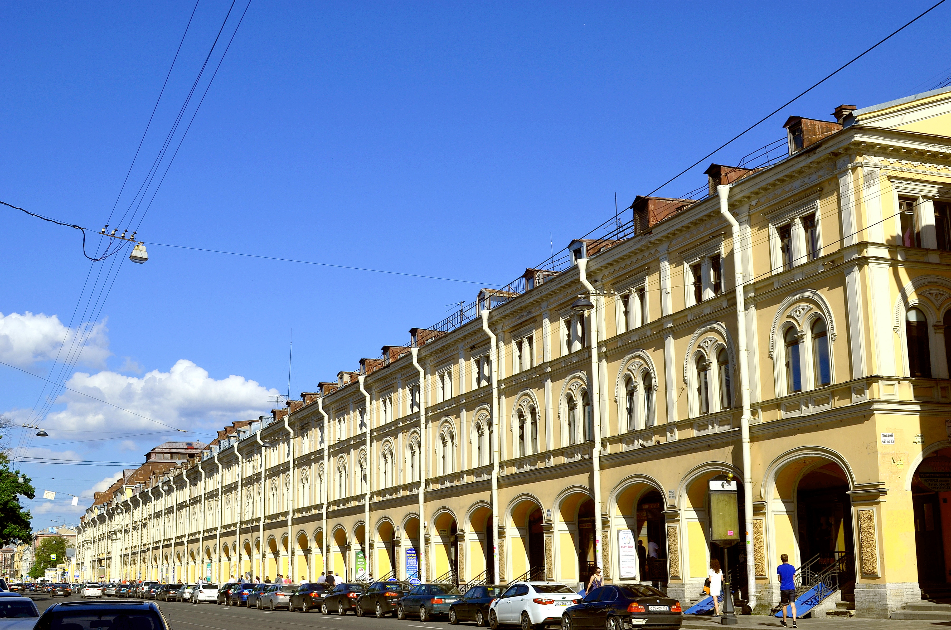 Apraskin yard with market Mariinsky (former Uknym yard). Complex: Sadovaya, 28, 30, University Street, 3, 5, Apraksin Lane, 2, 16, 18, Central District of St. Petersburg.